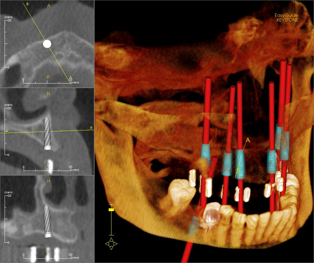 Dental implant Nha khoa I-DEN .